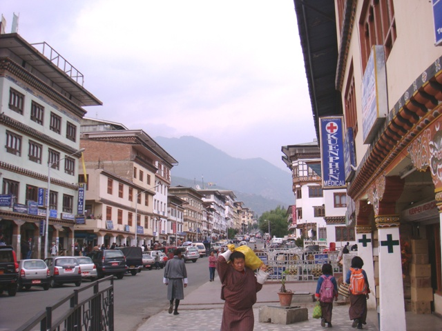 Downtown of Thimphu, Thimphu.